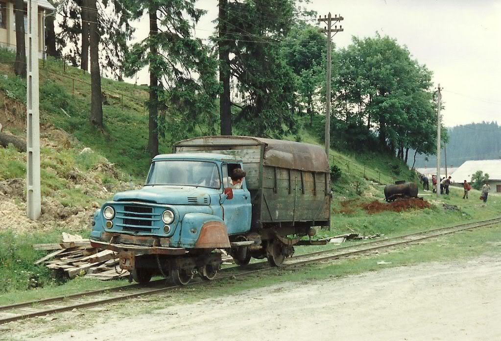 Carpați truck with train wheels in Comandău